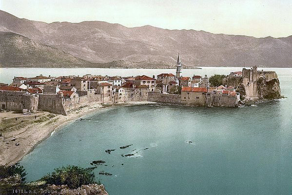 Budva (ital. Budua) in Montenegro, austrian Postcard ca. 1900